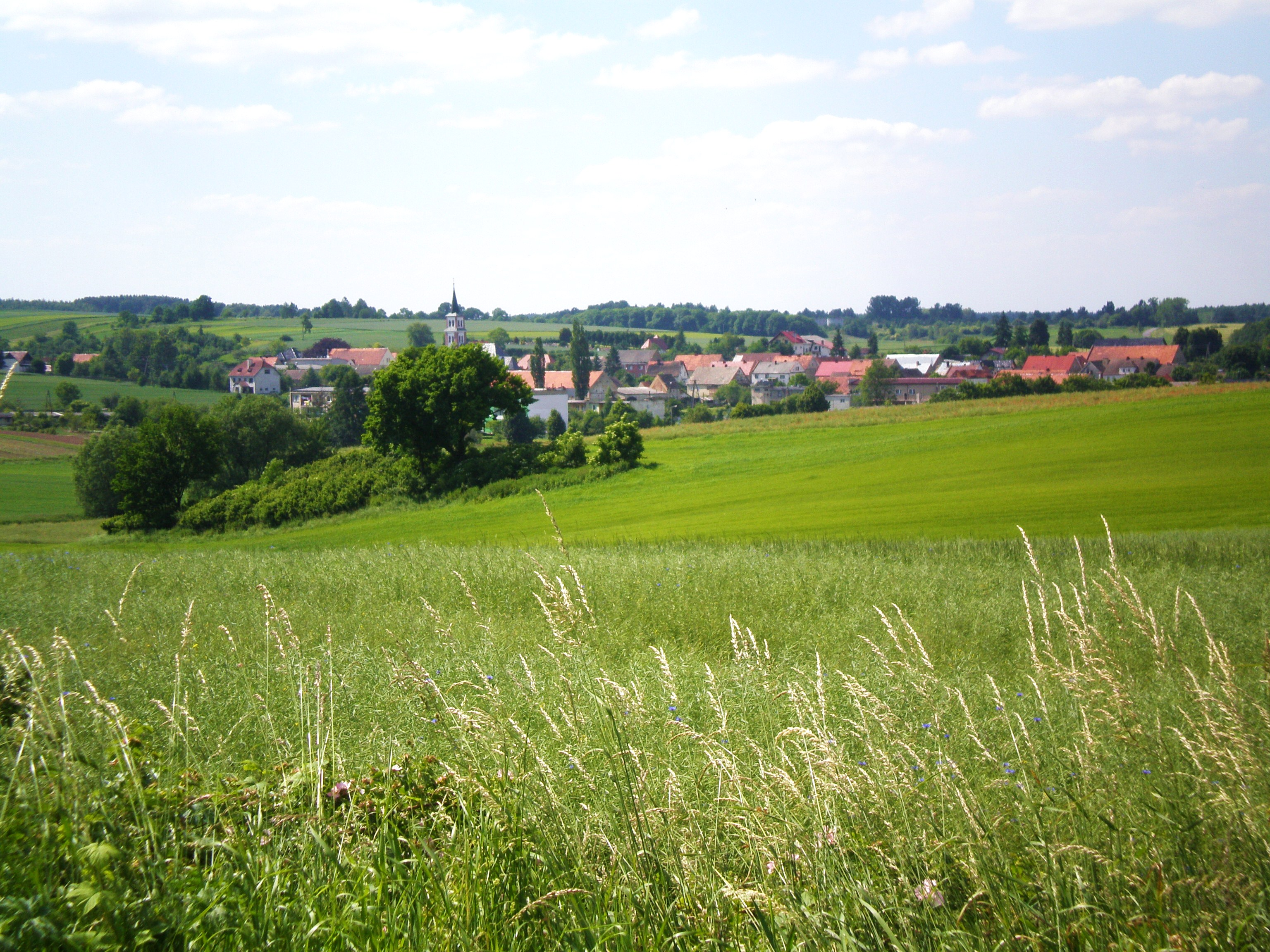 Kamiennik near Nysa/Opole